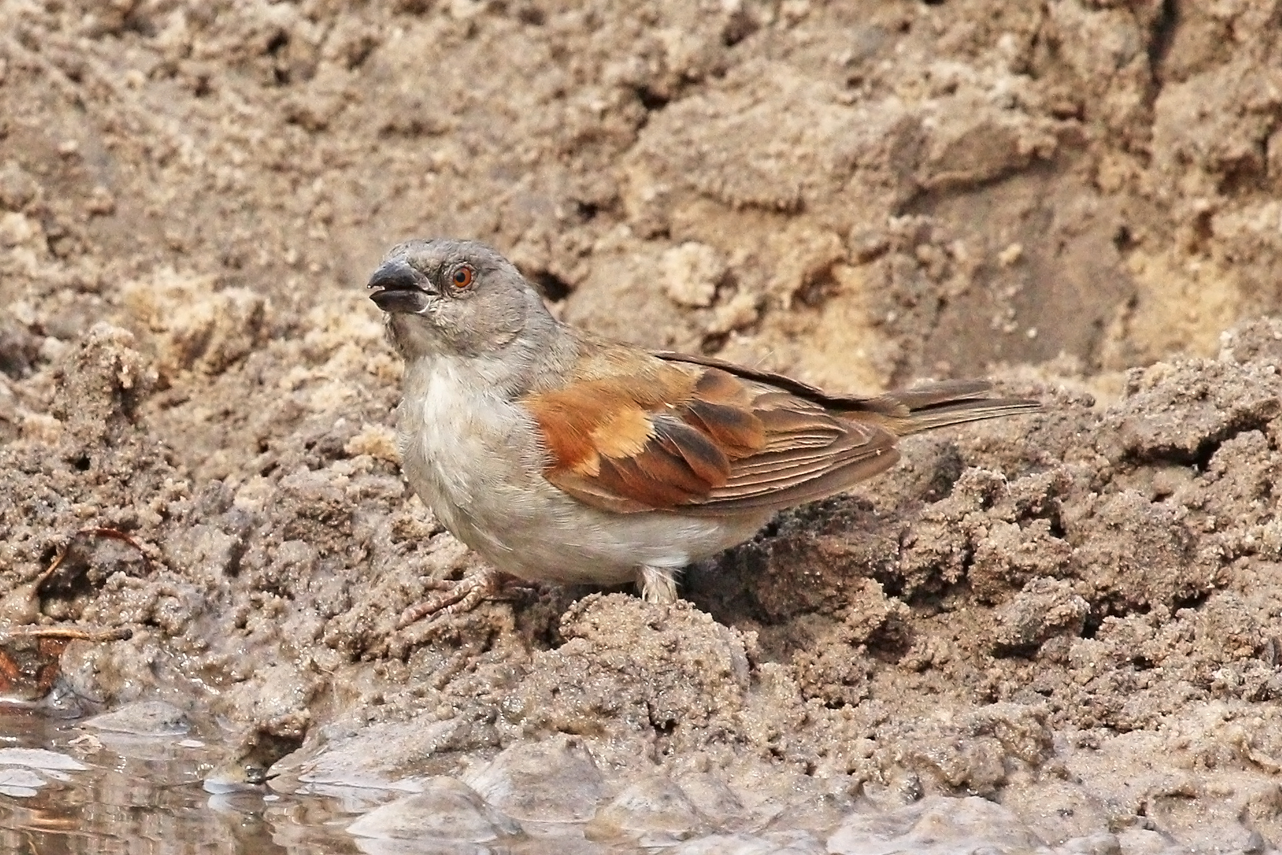 Grey-headed sparrow (Passer griseus griseus), Senegal